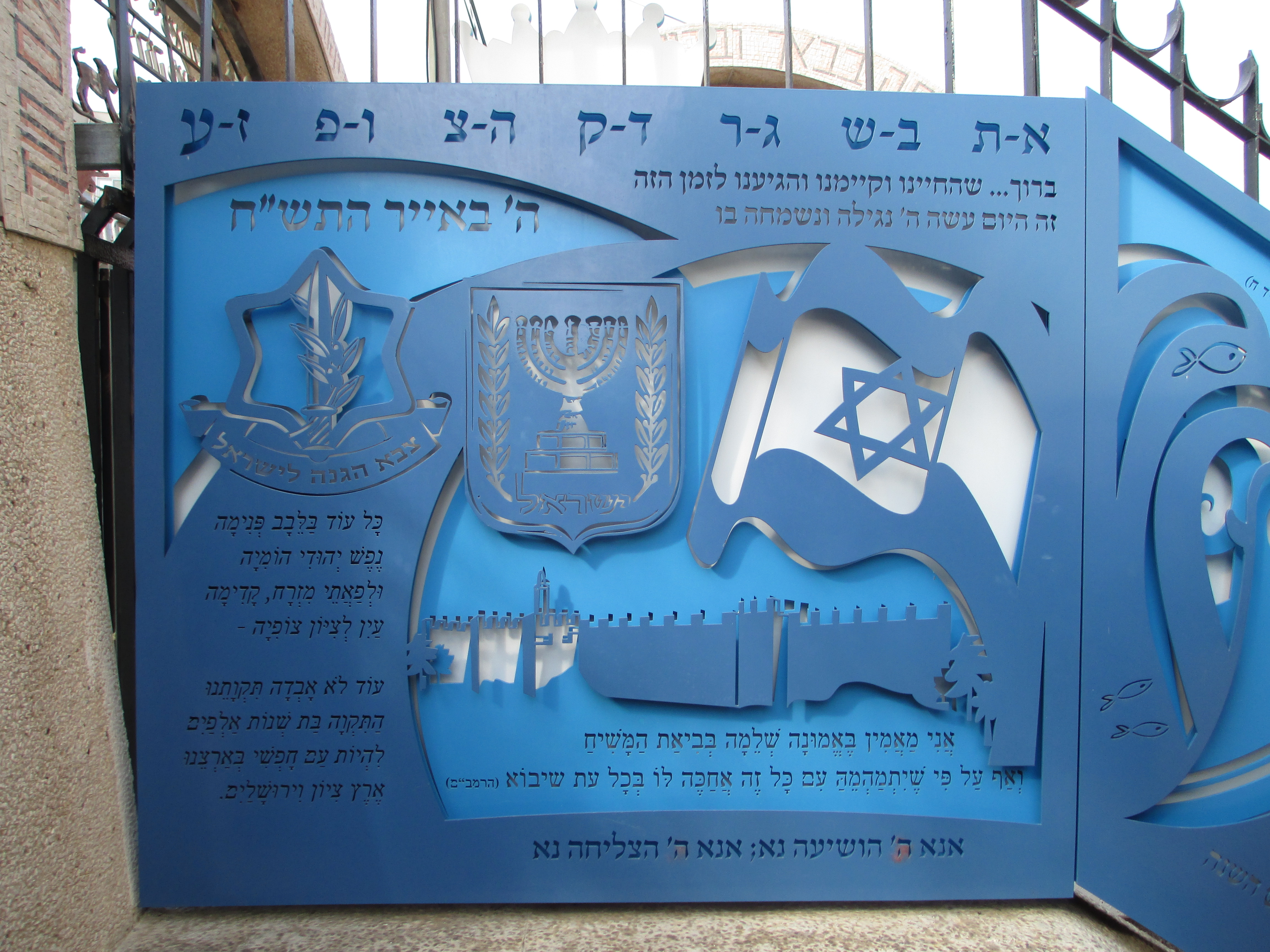 or torah synagogue-independence day plaque